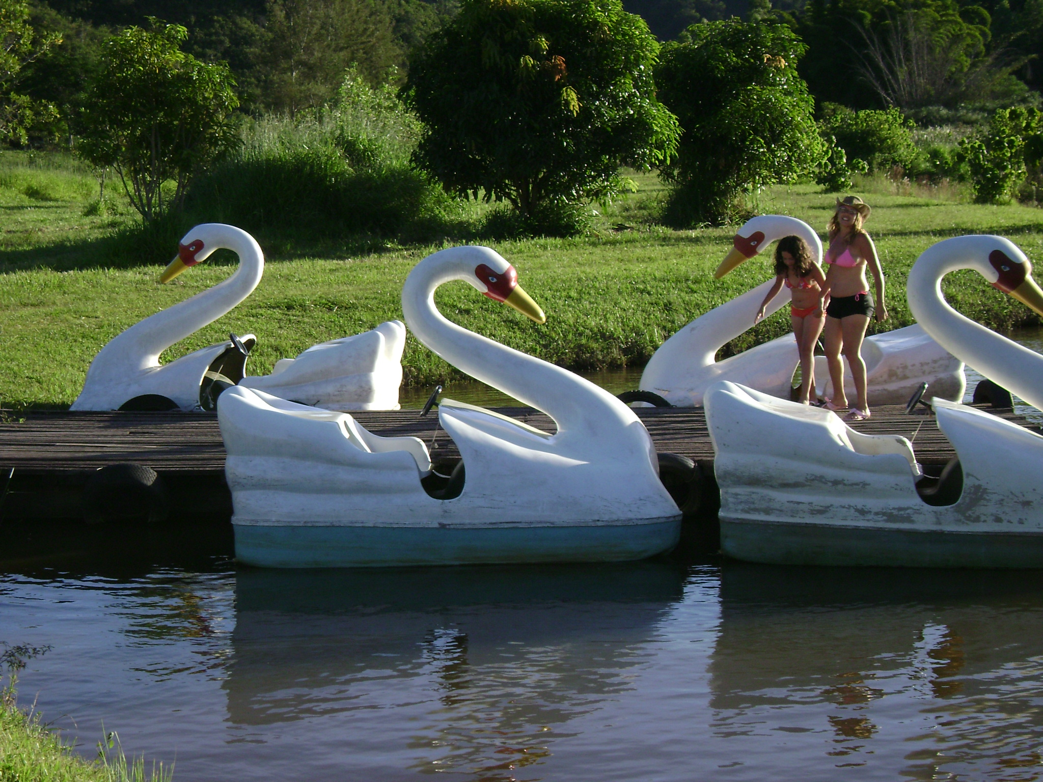 Pedalinhos em uma lagoa, no Brasil.